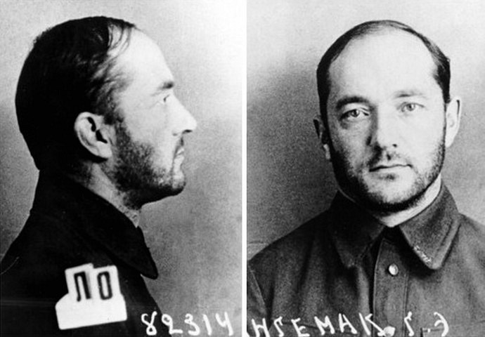 Georgiy Langemak (1898—1938) — Soviet artillery engineer, chief engineer of Jet Research Institute (RNII) (Moscow), the designer of solid-fuel rockets. Subject to State repression in 1937. Rehabilitated in 1955.